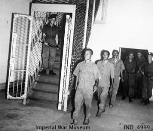 Three of the indicted Japanese war criminals are led to their cells underneath the Supreme Court in Singapore.